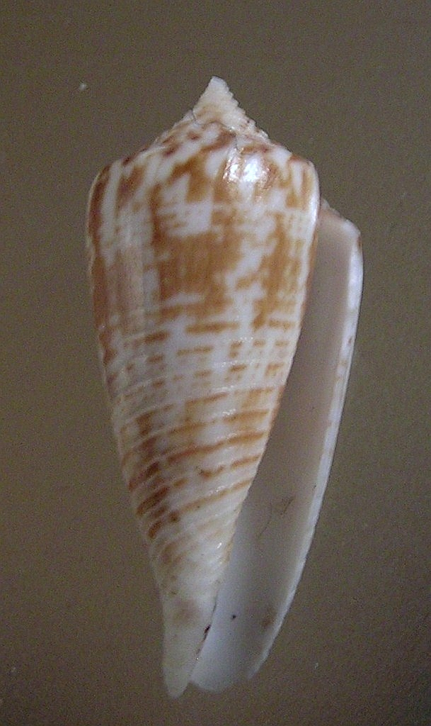 Conus mucronatus Reeve, 1843 ; the Philippines